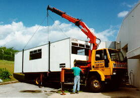 Churchtown Portable building, off Hiab truck